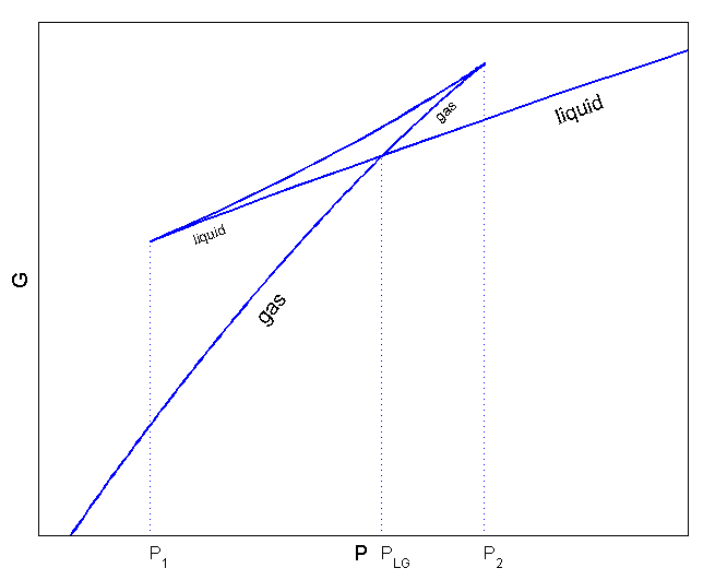 Gibbs free energy of the Van der Waals gas, vs. pressure. created by Eman using MATLAB